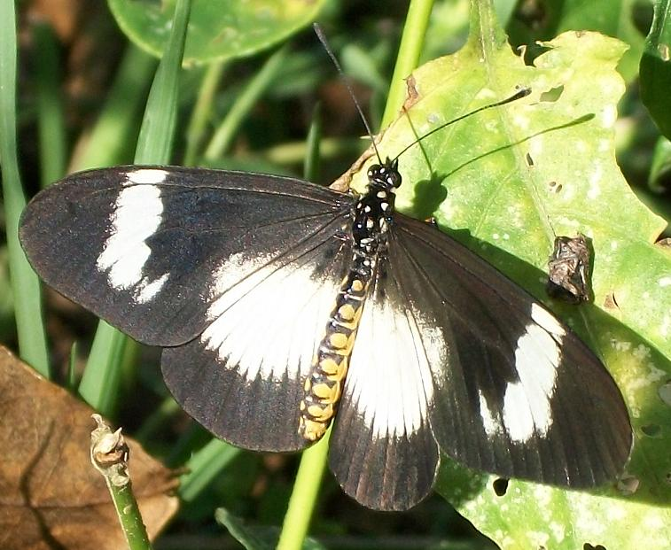 Dusky Acraea Telchinia esebria forma monteironis at Ilanda Wilds